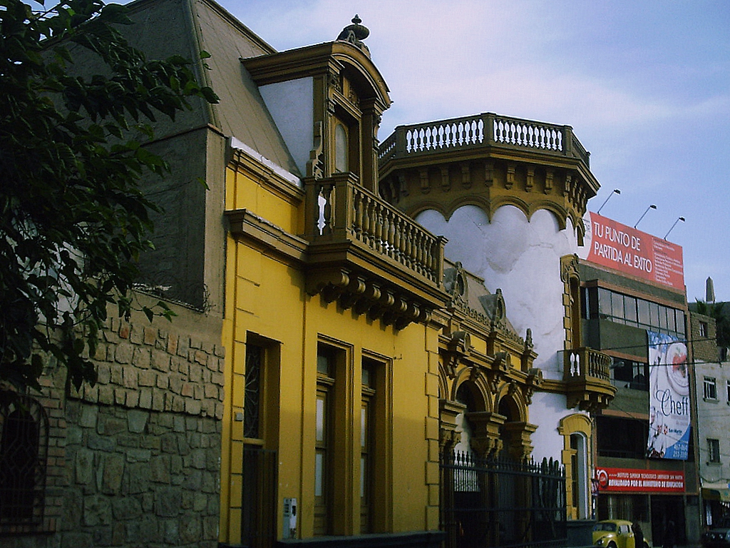 This picture was taken by me on april 10, 2006 with a Vivitar camera